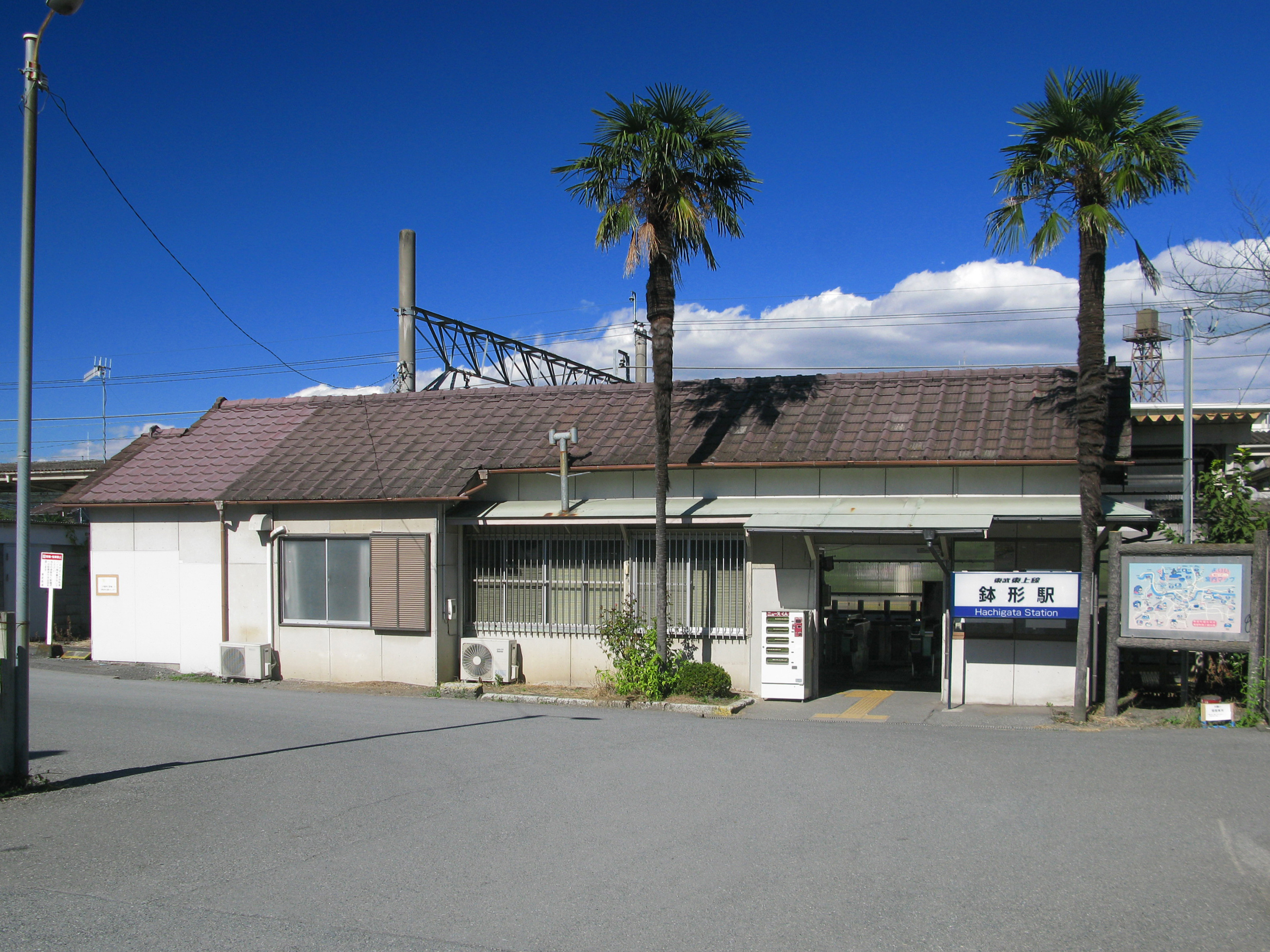 Hachigata Station on the Tobu Tojo Line in Saitama Prefecture, Japan